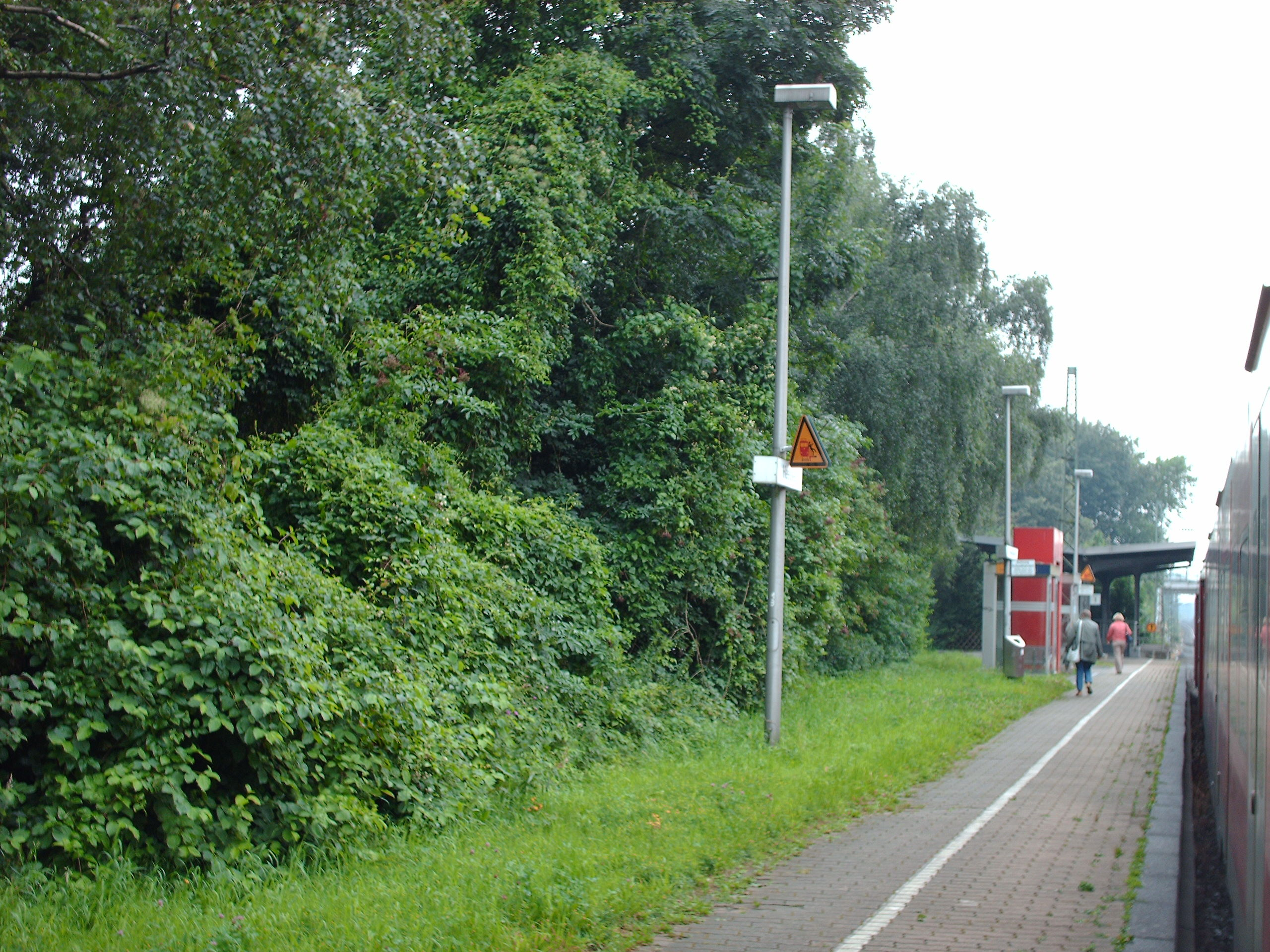 Heessen station, Hamm, Germany check usage